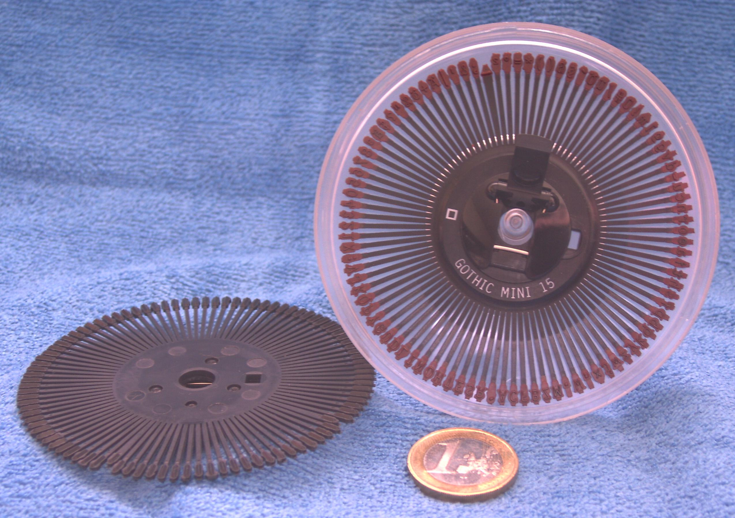 Daisywheel, system Silver-Reed, front and back side, open clip, 15 cpi sample in box (plus one Euro coin to compare size)